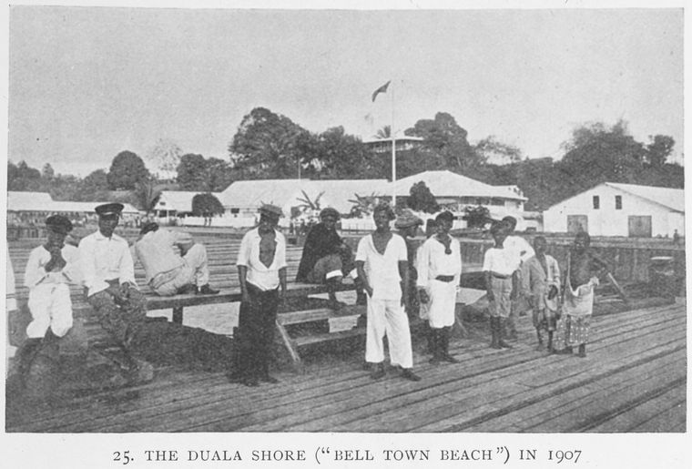 The Duala shore [Bell Town beach] in 1907. From George Grenfell and the Congo; a history and description of the Congo Independent State and adjoining districts of Congoland, together with some account of the native peoples and their languages, the fauna and flora; and similar notes on the Cameroons and the island of Fernando Po, the whole founded on the diaries and researches of the late Rev. George Grenfell, B.M.S., F.R.G.S.; and on the records of the British Baptist Missionary Society; and on additional information contributed by the author, by the Rev. Lawson Forfeitt, Mr. Emil Torday, and others, by Sir Harry Johnston, Volume I (published 1908).